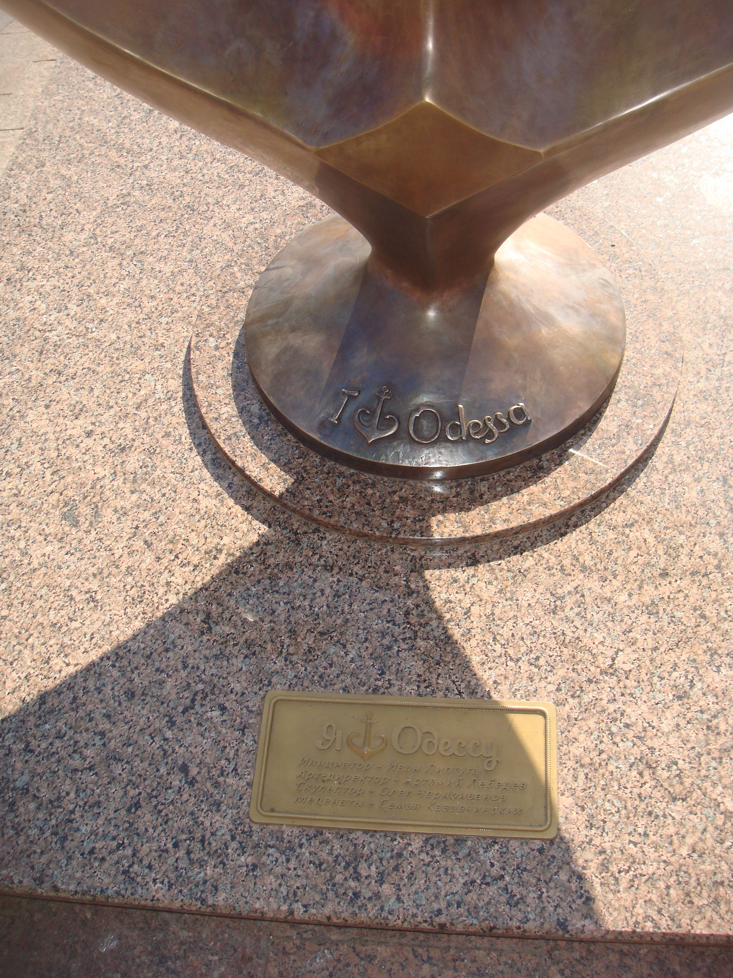 Bronze monument dedicated to tourist logo of Odessa, erected in Odessa crossing Pushkinskaya street Lanzheronovskaya street, on September the 2nd 2012. Rear view. Bronze plaque on the basement